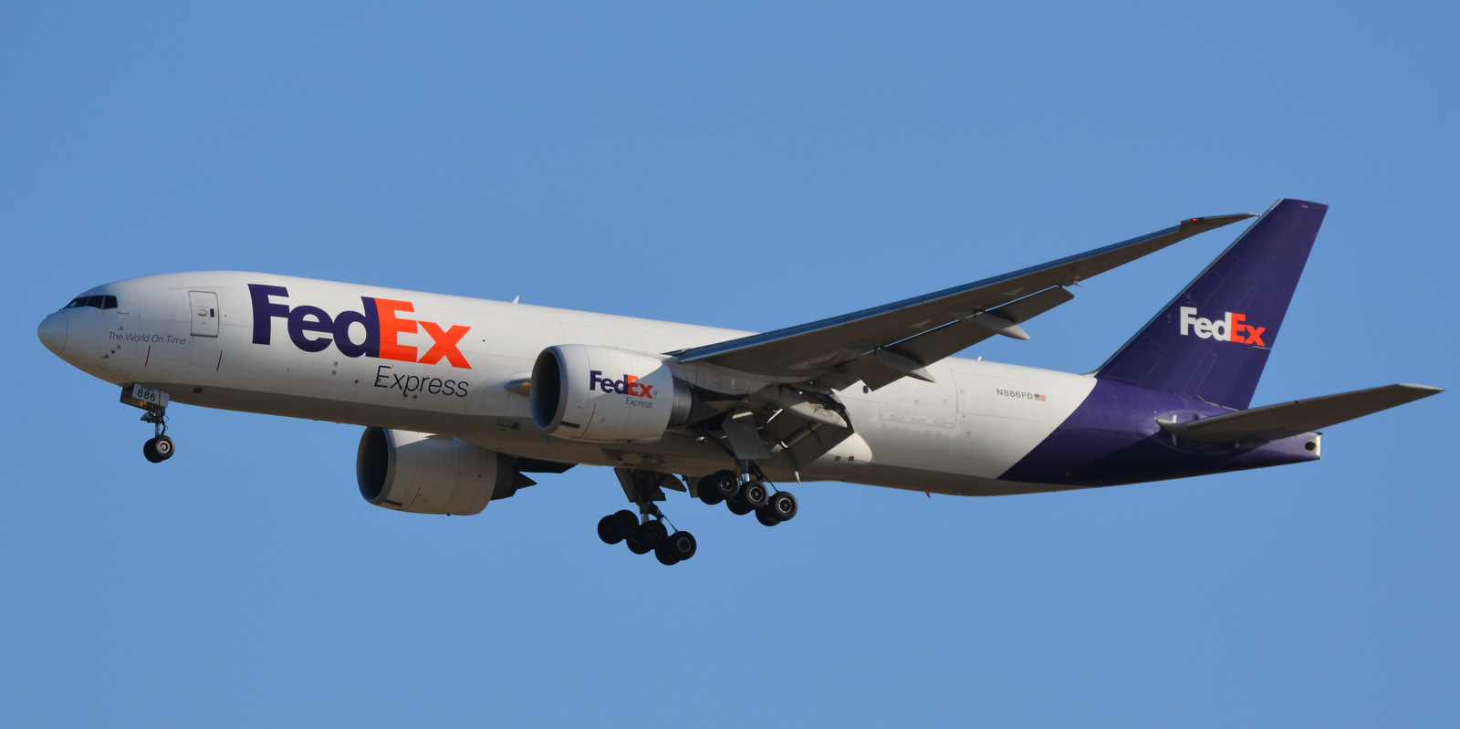 Paris-Charles de Gaulle Airport